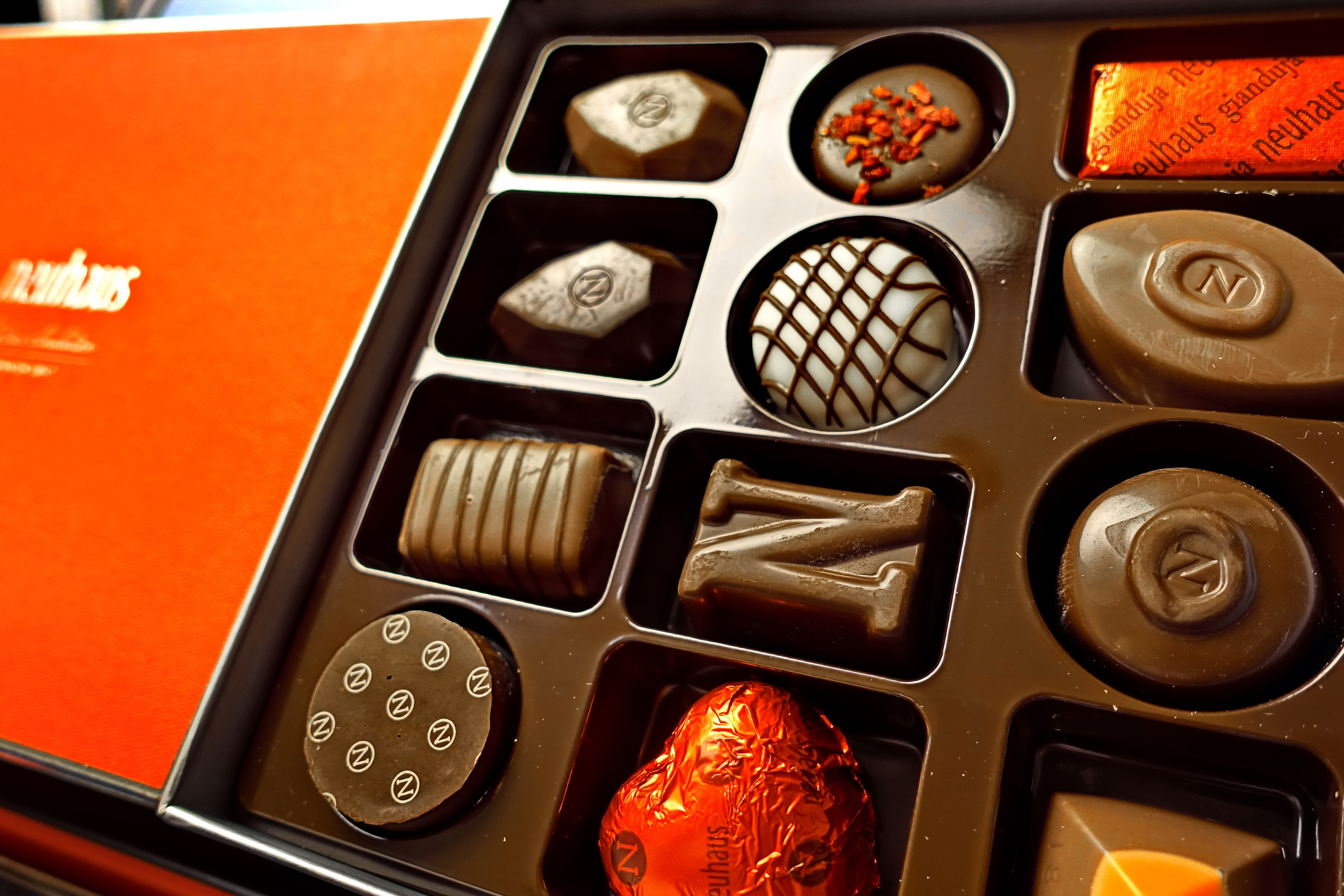 Neuhaus chocolates